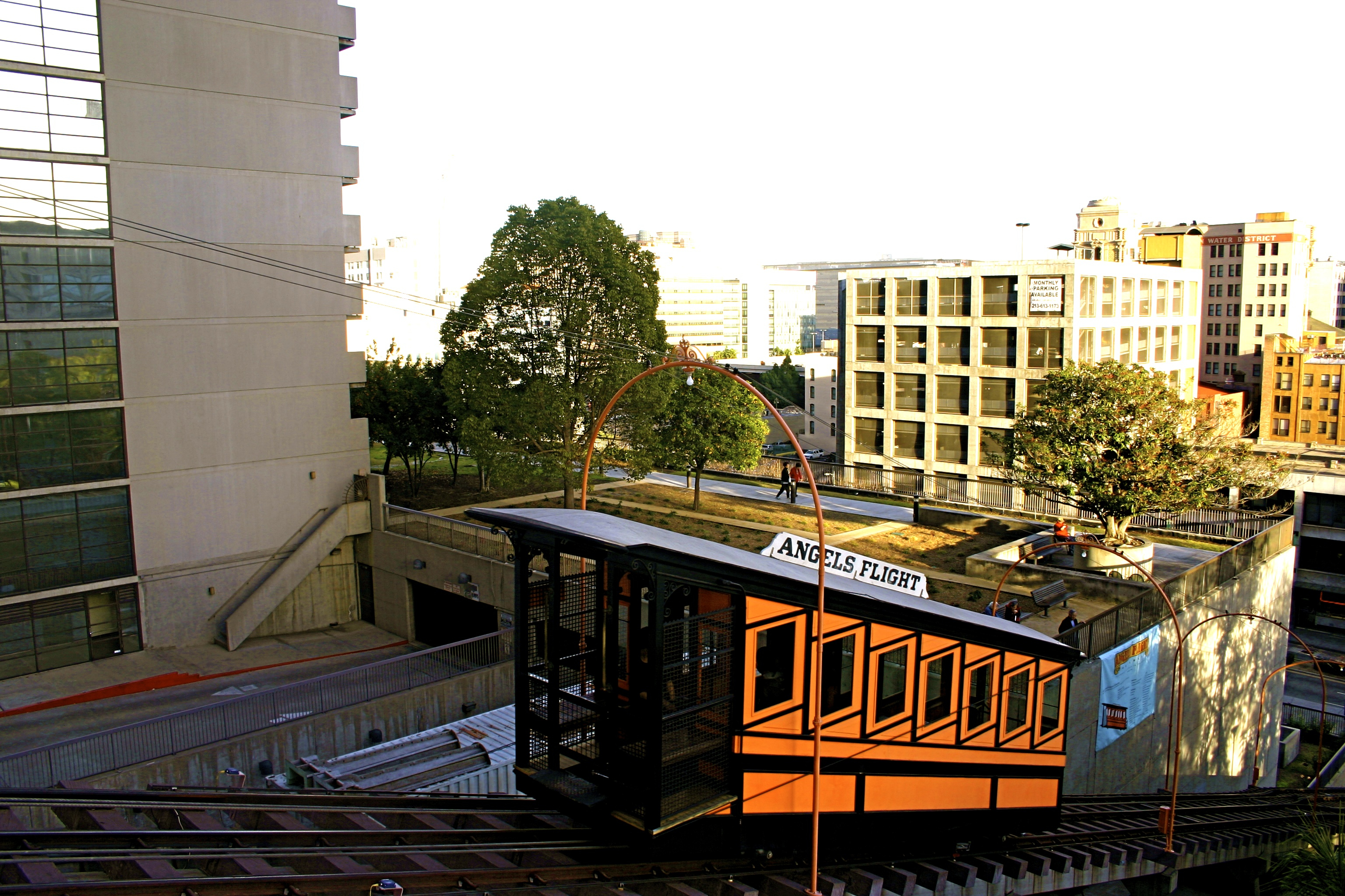 Angels Flights-Downtown Los Angeles